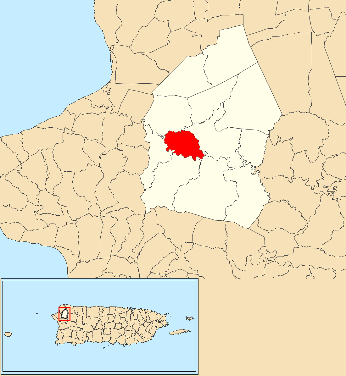 Cruz, Moca, Puerto Rico locator map